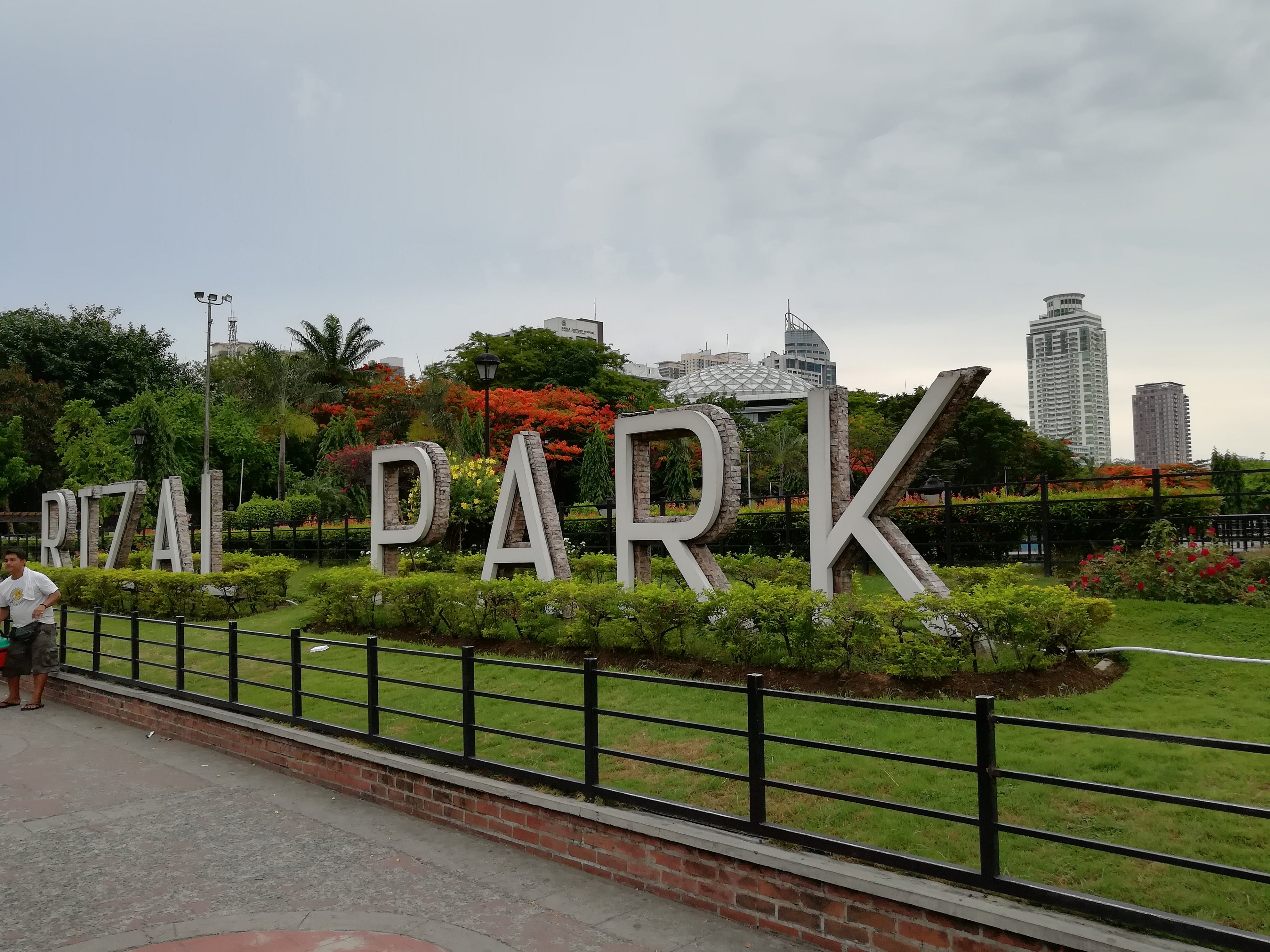 Rizal Park in Manila, Philippines